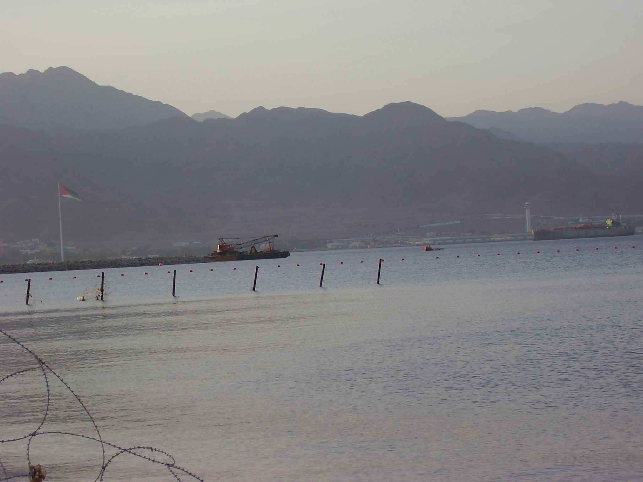 eilat-aqaba sea border